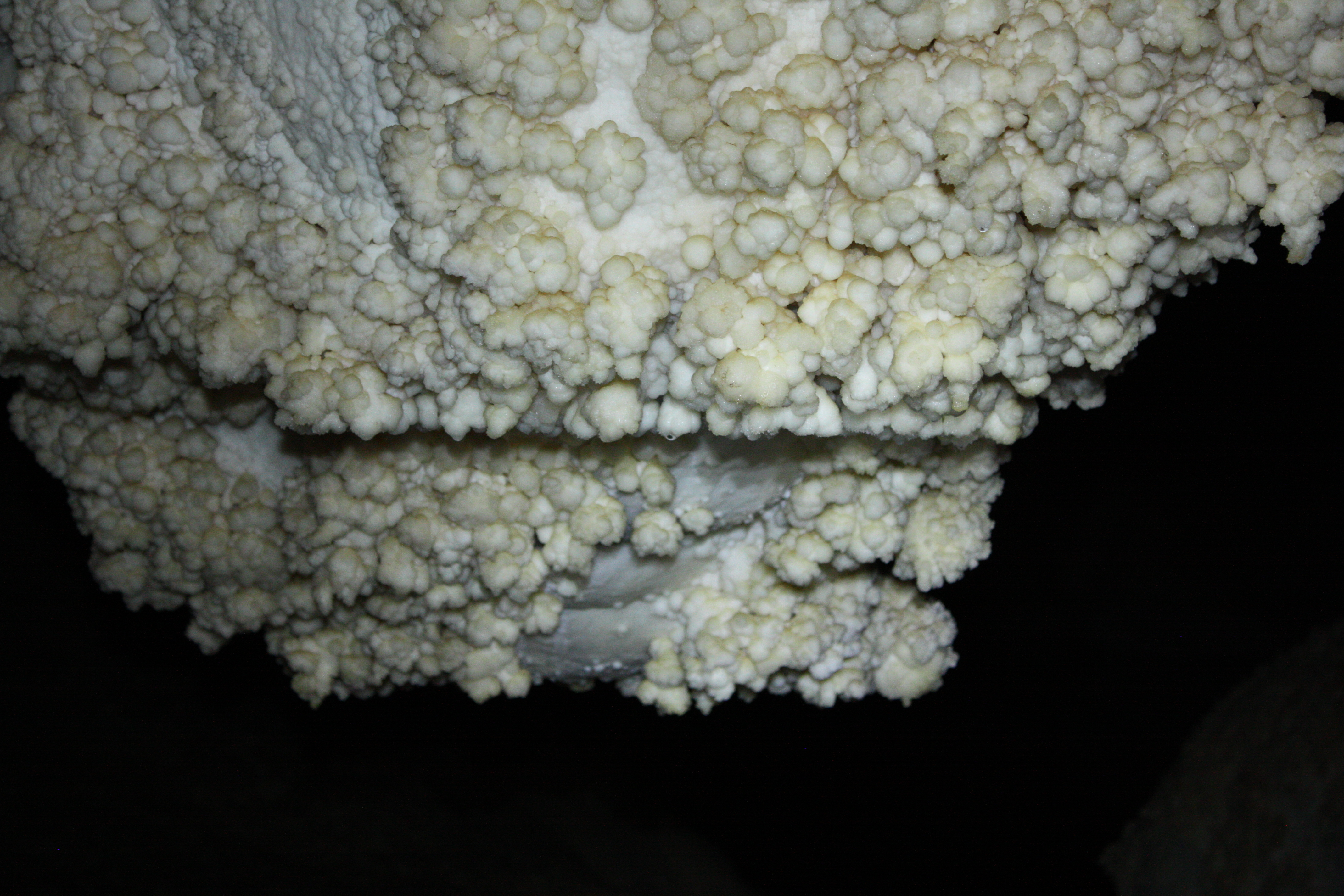 Cave popcorn showing trays